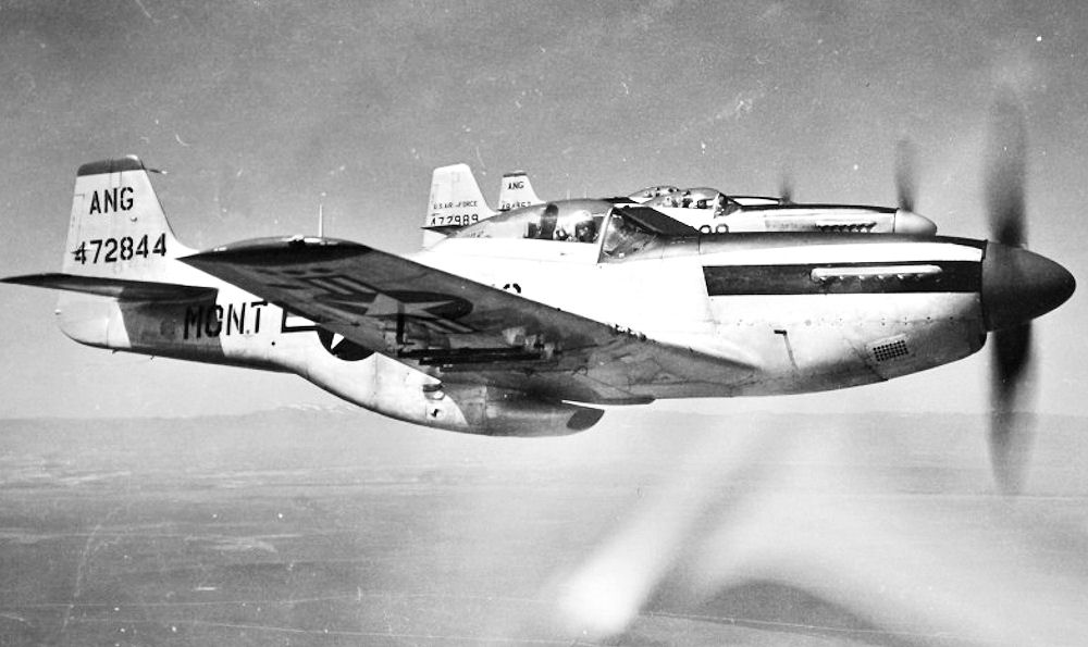 186th Fighter Squadron - Three North American F-51D Mustangs in formation F-51D-25-NA Mustang 44-72844 in foreground. Aircraft was later sold to civilian market as surplus from McClellan AFB, CA, Feb. 17, 1958 Became N5076C, then N156C, then N64C, then N7406.